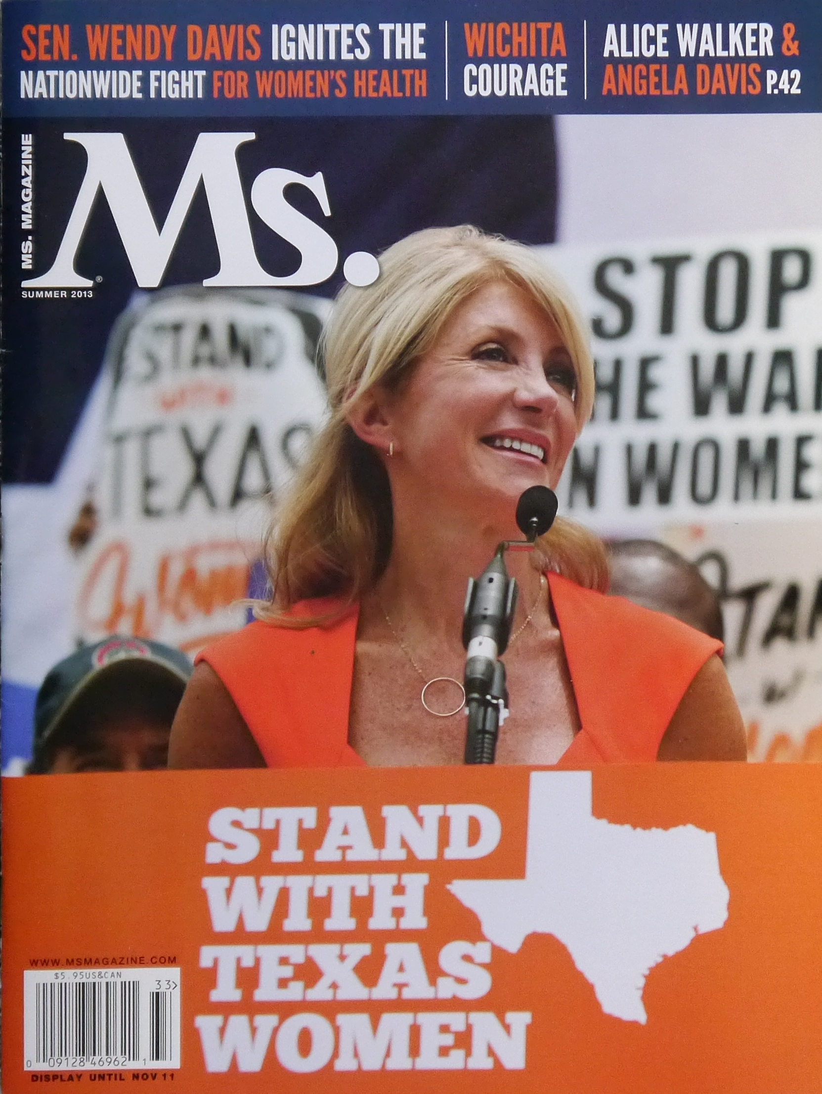 Ms. magazine, Summer 2013 with Wendy Davis